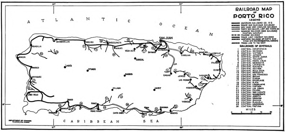 Puerto Rico rail map of 1925